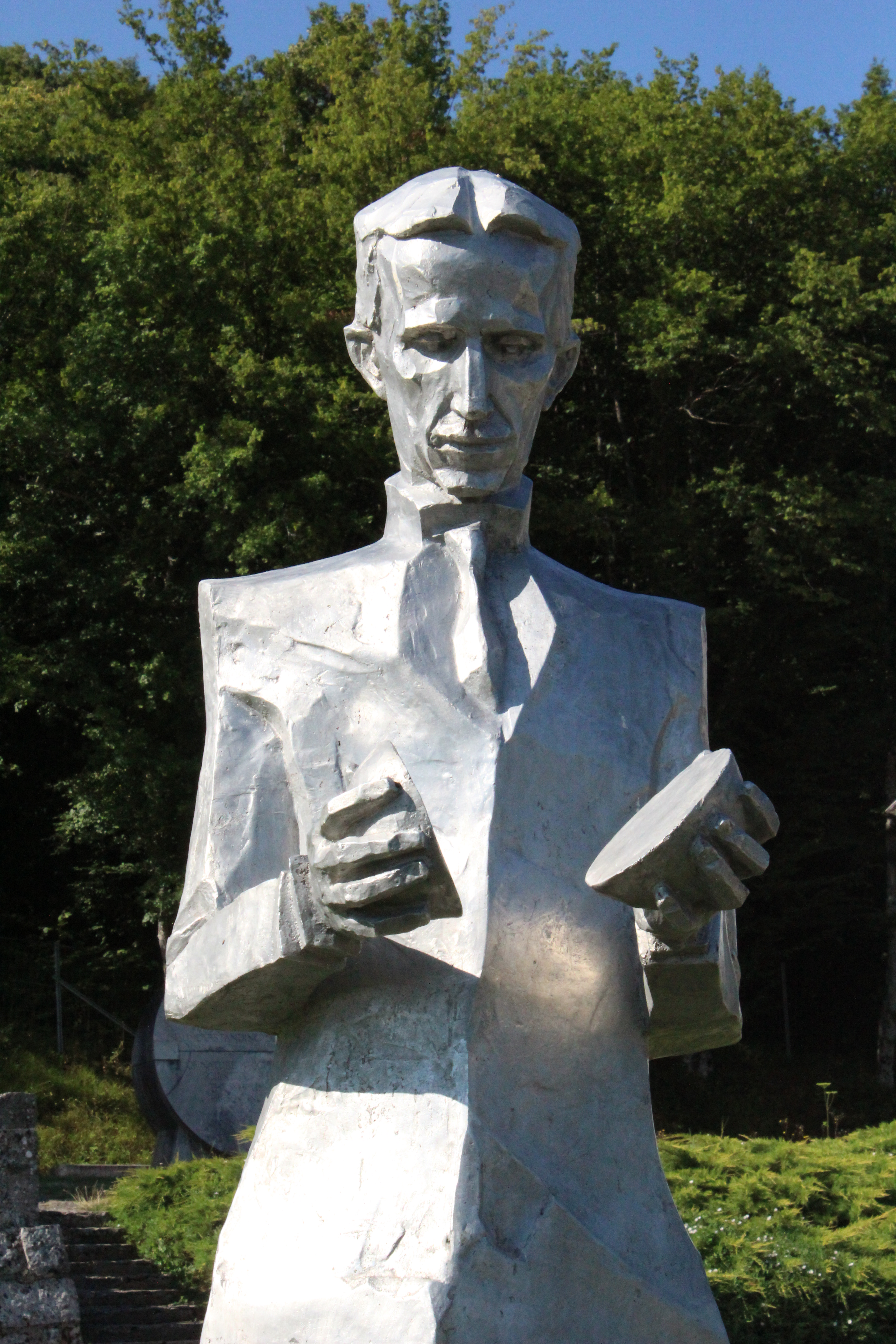 Detail of Tesla's statue (Nikola Tesla Memorial Center, Smiljan, Croatia). Created by Mile Blažević, 2006.